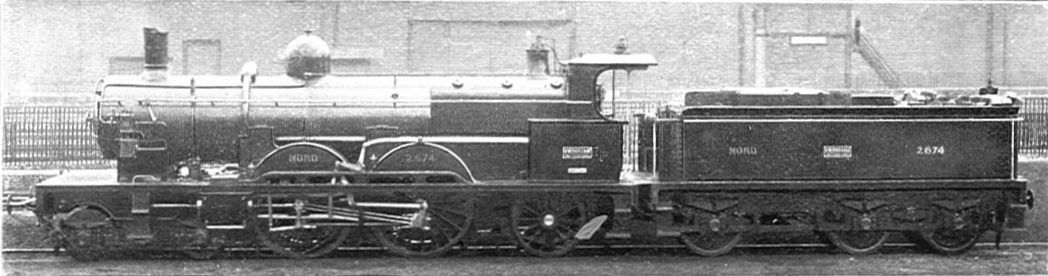 Fig. 2 Opposite Ideals: Simplicity and Complexity De Glehn compound Atlantic for the Northern Railway of France